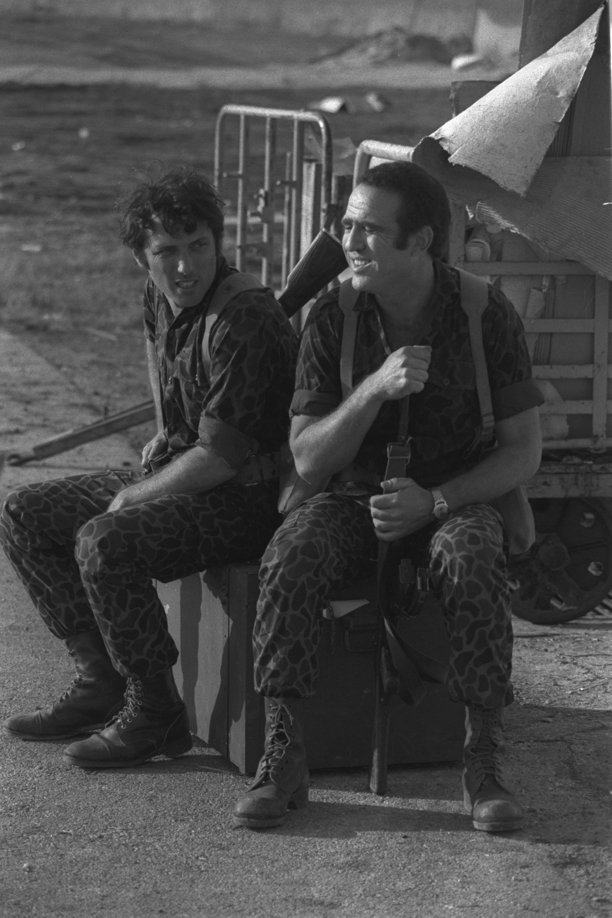 Yehoram Gaon and Assi Dayan (left) as commando soldiers in Menahem Golan's "Mivtsa Yonatan" film. יהורם גאון ואסי דיין (משמאל) כחיילי קומנדו בסרט של מנחם גולן "אנטבה" Photo: Yaakov Saar (1951–) Alternative names SA'AR YA'ACOV; Jacob Saar; Saʻar, YaʻaḳovDescriptionIsraeli photographerDate of birth 1951 Authority control : Q28751896 VIAF: 298161188 NLI: 001394176 creator QS:P170,Q28751896 , 17/12/1976.